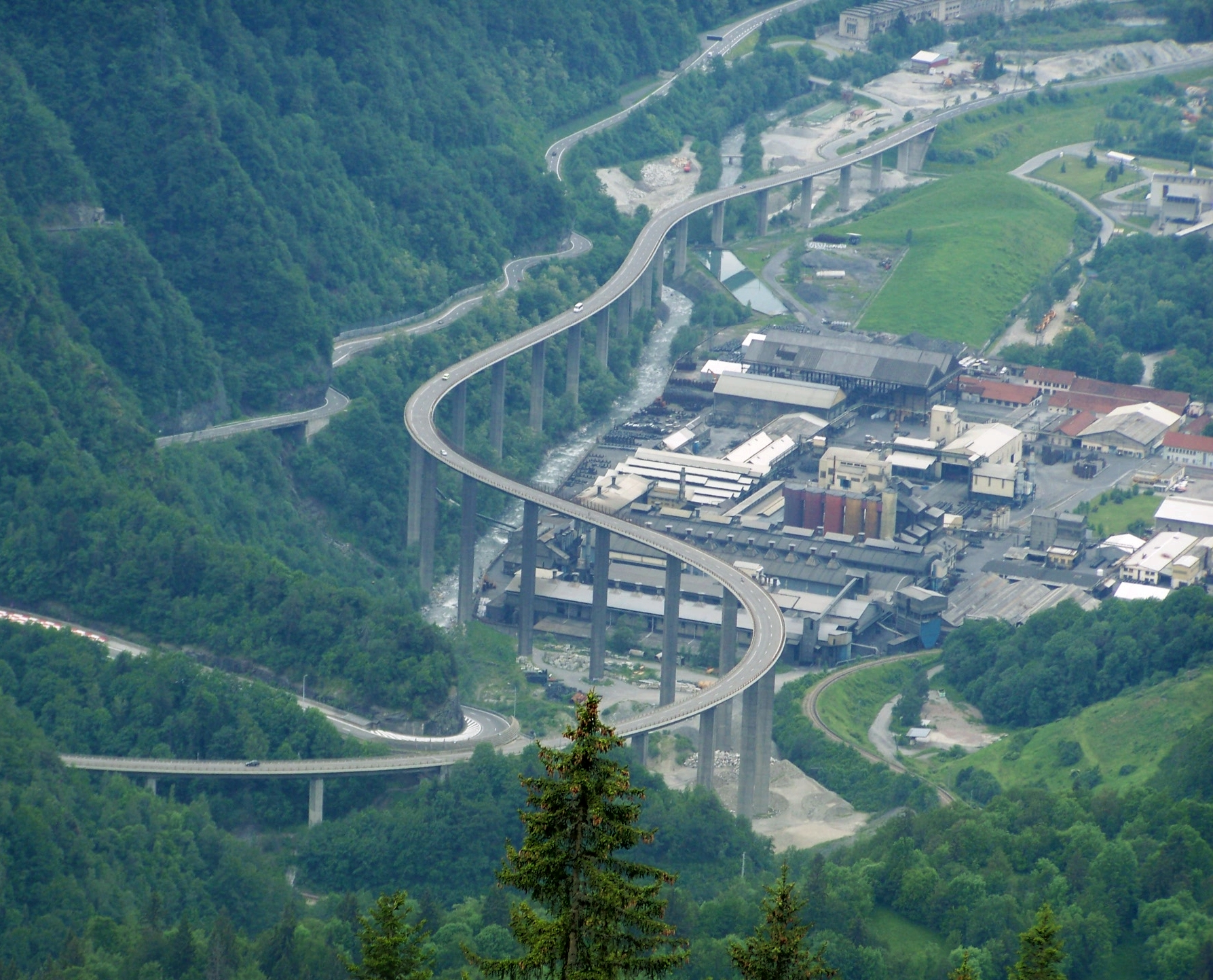 Sight on the viaduc des Égratz bridge of the French national road RN 205 to Chamonix and Italy by the Mont-Blanc tunnel.